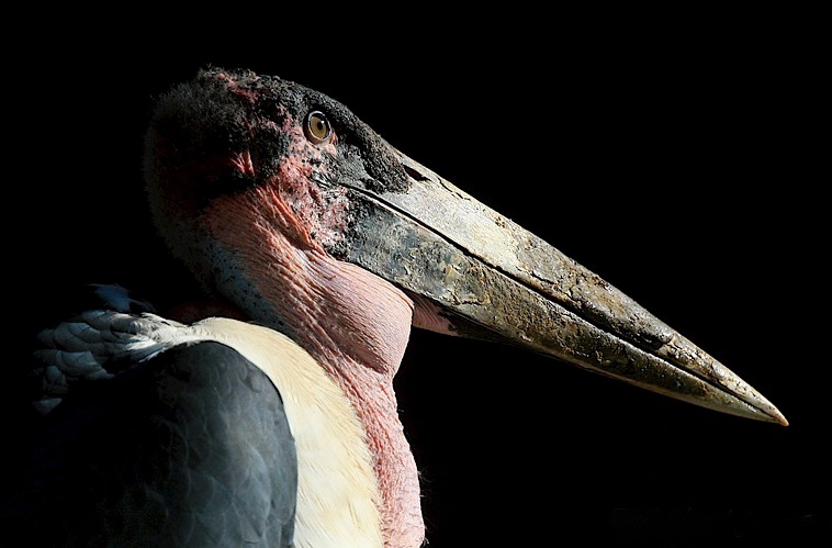 Leptoptilos crumenifer (Maribou stork, captive)